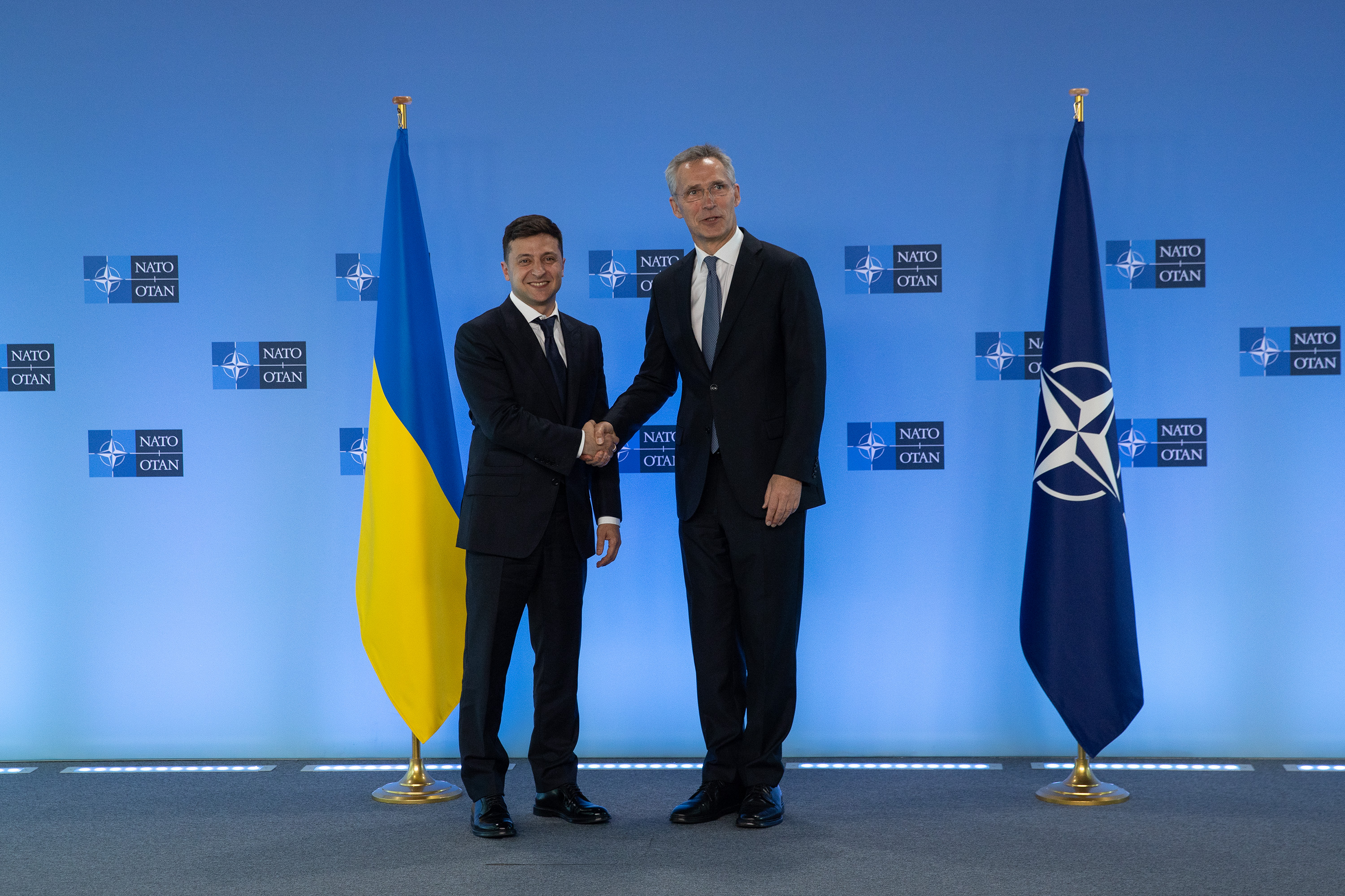 Zelensky with Stoltenburg